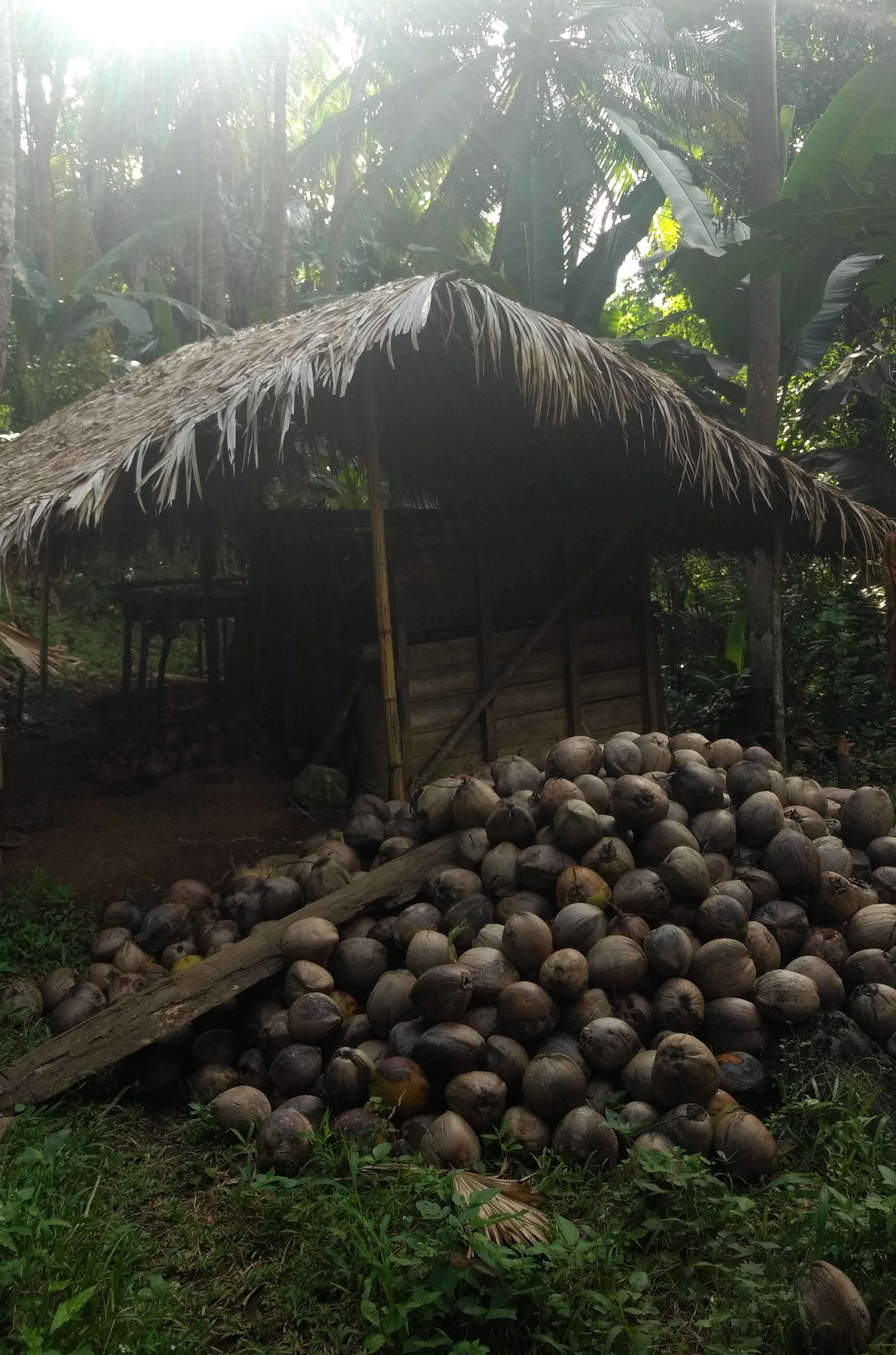 coconuts are harvested